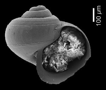 Apertural view of protoconch of Protatlanta souleyeti from the Pliocene. Locality: sample Anda4, Anda, Pangasinan, Luzon, Philippines. Registration number (RGM) 539 790.